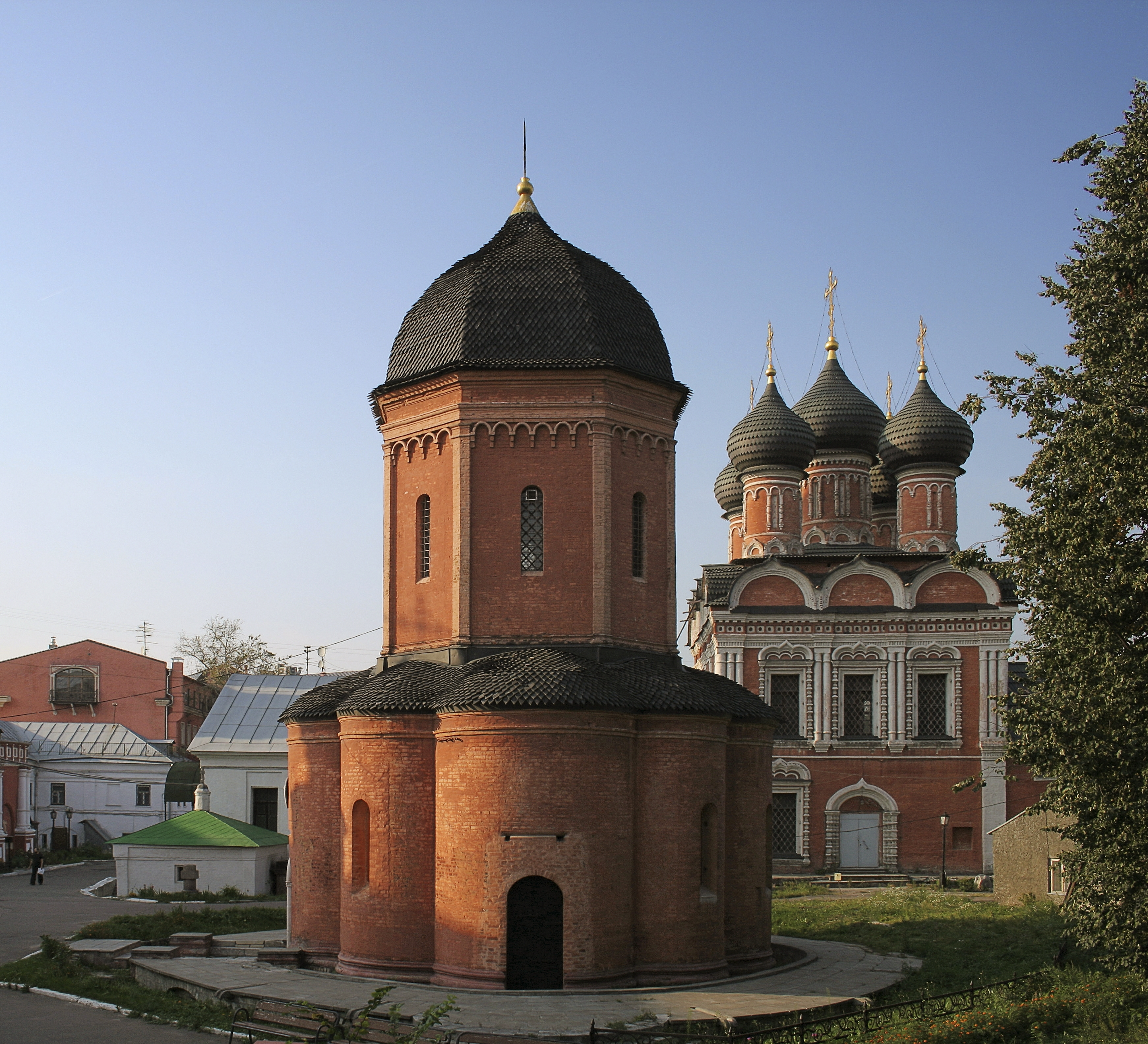 Cathedral of St Peter (built 1517) — at Vysokopetrovsky Monastery, central Moscow.